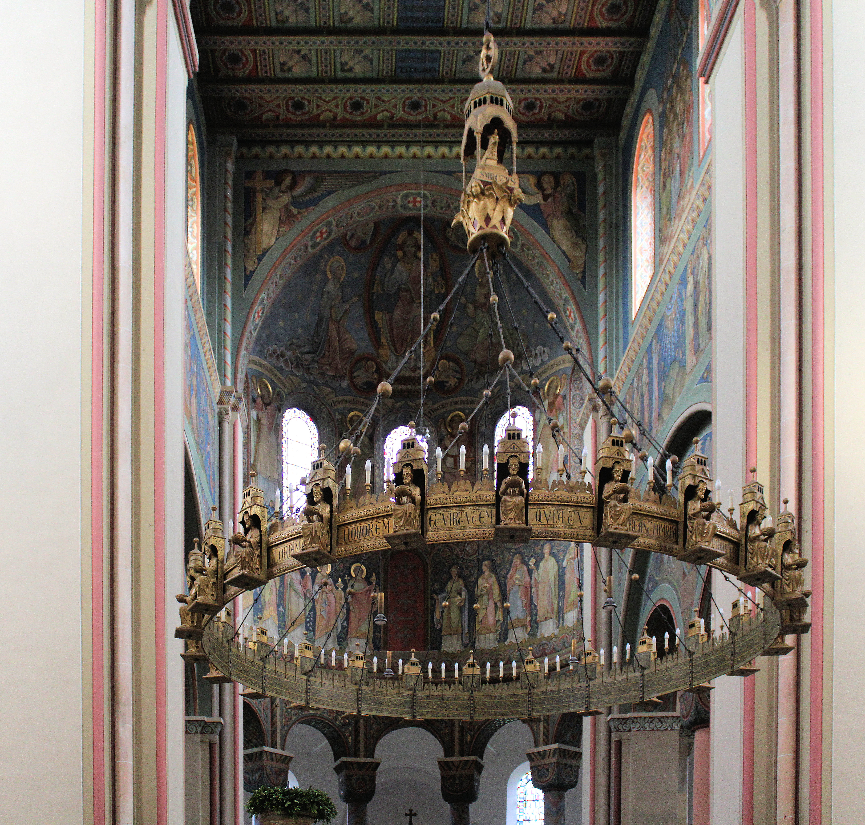 Hildesheim, St. Godehard Church, Coronas (lighting devices)